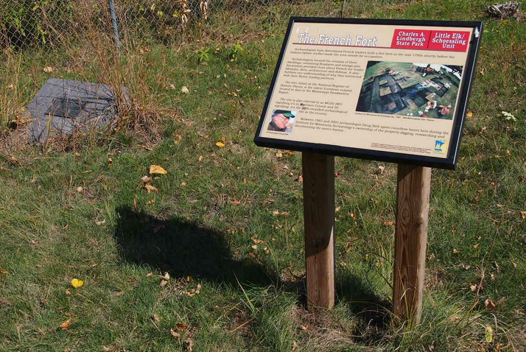 Historical markers interpreting the site of Fort Duquesne (established by the French c. 1752), Little Elk/Schoessling Unit, Charles A. Lindbergh State Park, Minnesota, USA.